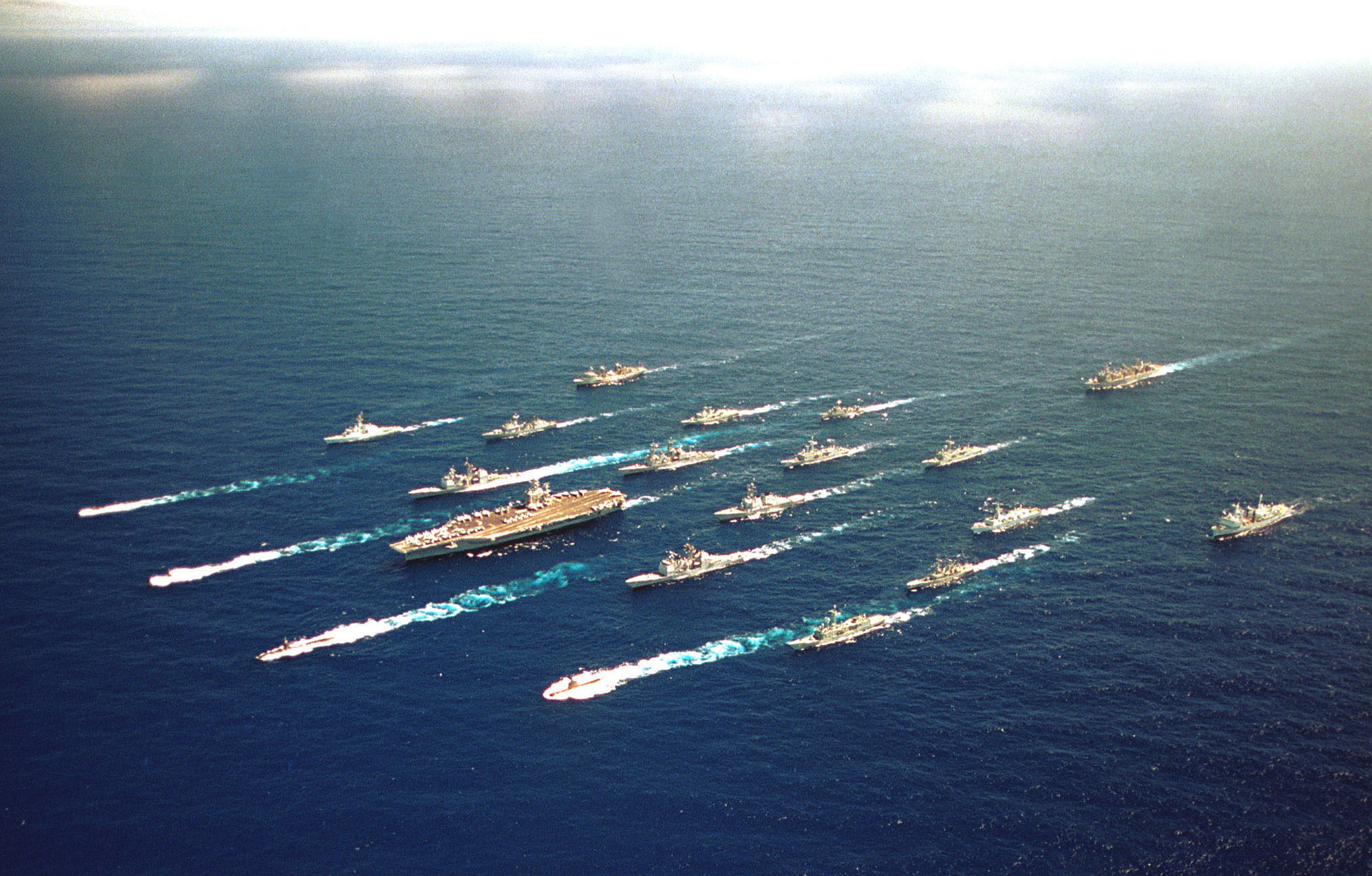 June 20, 2000 -- The U.S.S. Abraham Lincoln Battle Group along with ships from Australia, Chile, Japan, Canada, and Korea steam alongside one another for a Carrier Battle Group Photo during RIMPAC 2000. (U.S. Navy photo by PH2 Gabriel Wilson.)